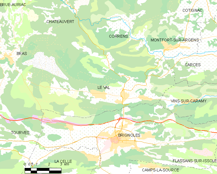 Map of French municipality Le Val